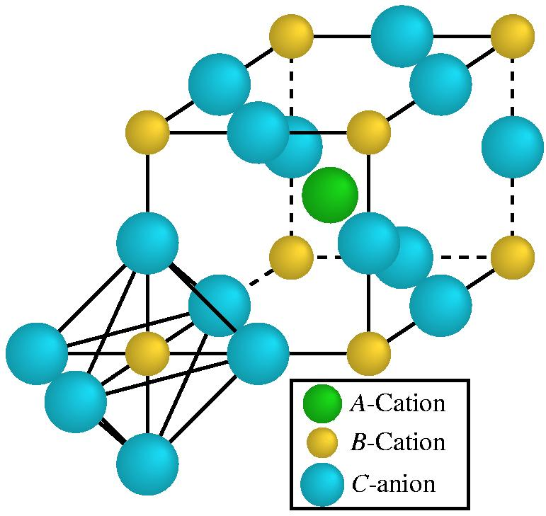 Crystal structure of Perovskite